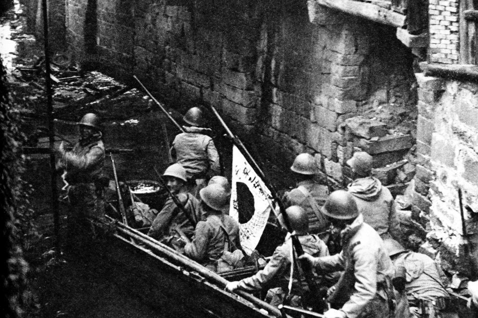 Soldiers of IJA Tenth Army are landing at Hongzhou Bay, southeast of Shanghai, November 1937